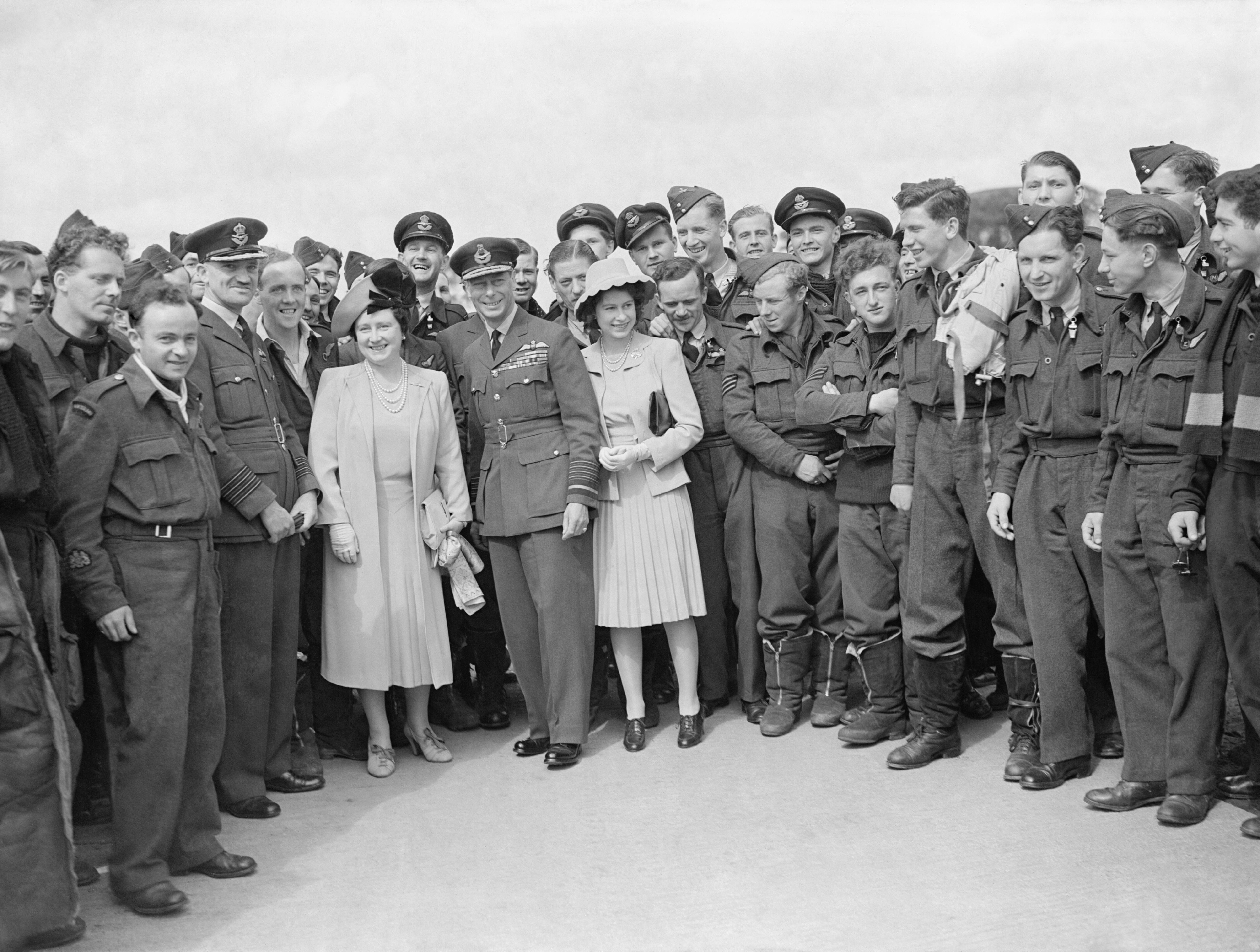 Royal Air Force Bomber Command, 1942-1945. Queen Elizabeth, King George VI and Princess Elizabeth standing with a group of RAF personnel, including the Station Commander (standing on the Queen's right), during a visit to Mildenhall, Suffolk.